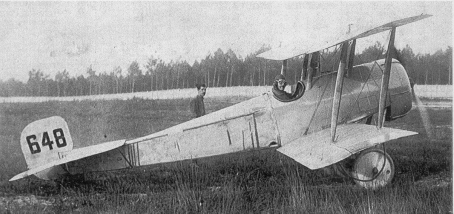 Photo of Bristol Scout B, No. 648, the second Scout B airframe built.